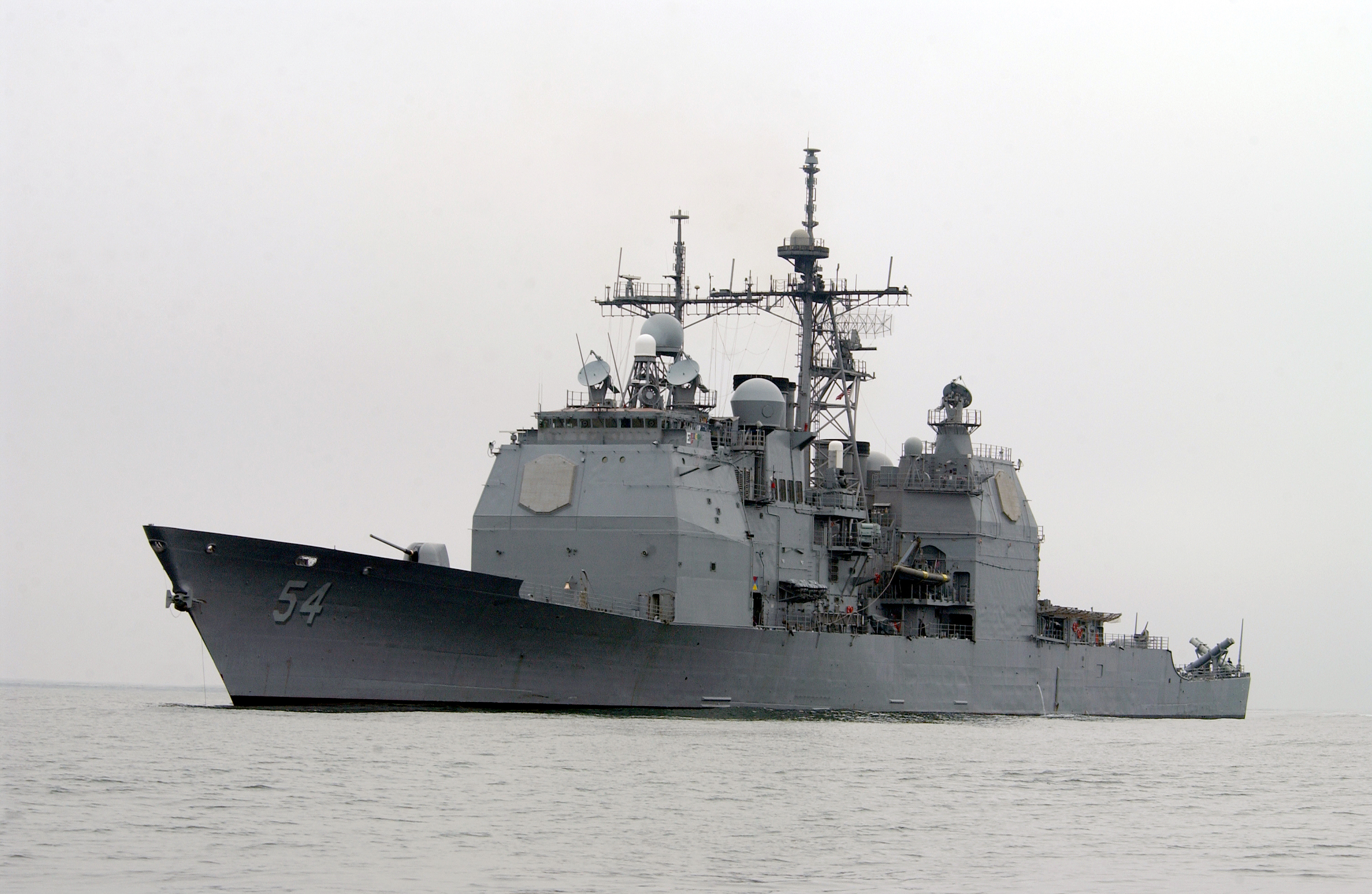 Pacific Ocean (Mar. 31, 2004) – The guided missile cruiser USS Antietam (CG 54) sails off the coast of San Diego, Calif. at the beginning of a weeklong exercise in the Pacific. The crew of Antietam is receiving their last training exercises before the ship goes into dry dock for a regularly scheduled maintenance period. U.S. Navy photo by Photographer's Mate 3rd Class John DeCoursey. (RELEASED)